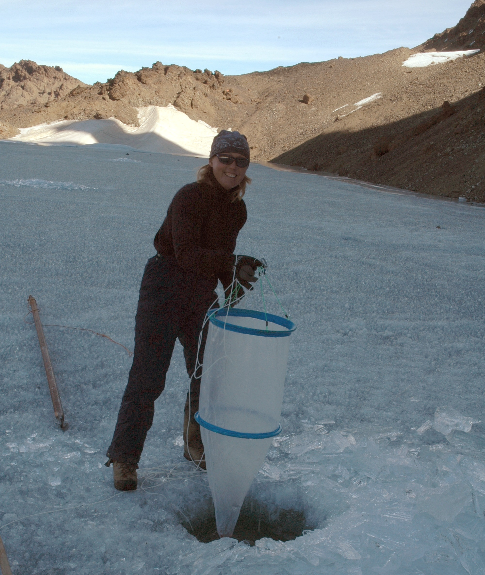 sampling of a lake on James Ross Island (Antarctica)